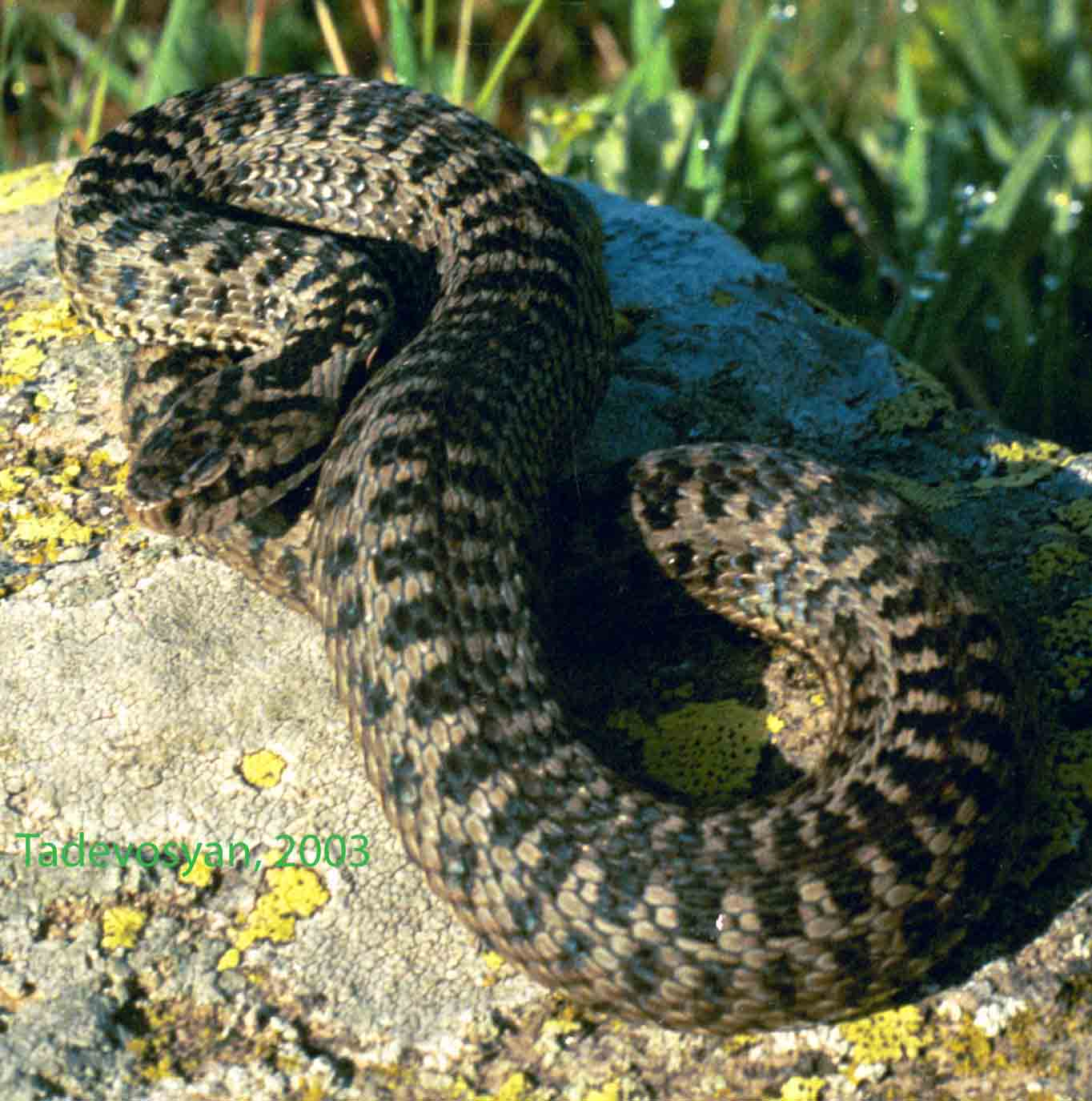 Adult male of Vipera darevskii